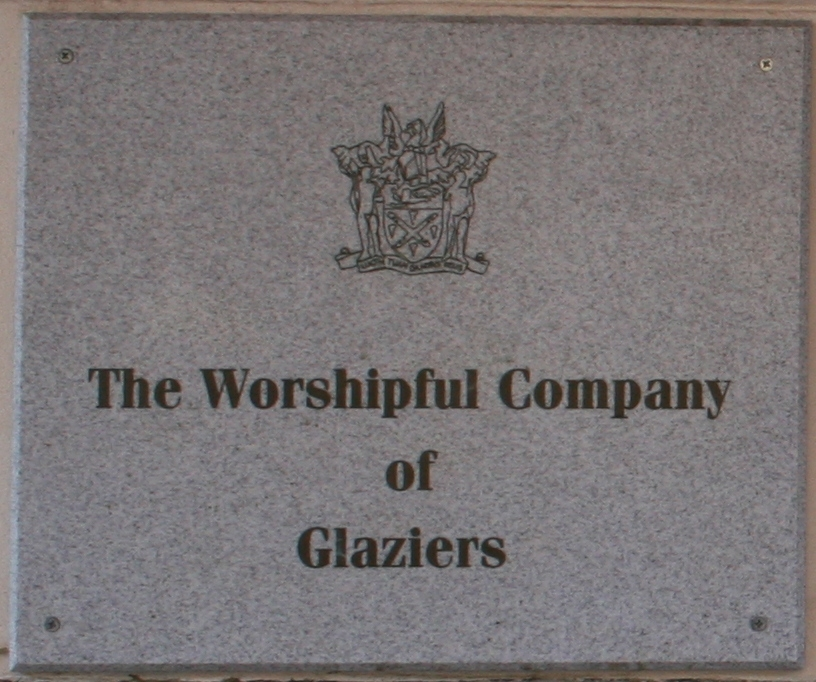 Plaque on the Glaziers Hall, showing the coat of arms of the Worshipful Company of Glaziers: Argent, two grozing irons in saltire between four closing nails sable on a chief gules a demi-lion passant guardant or.